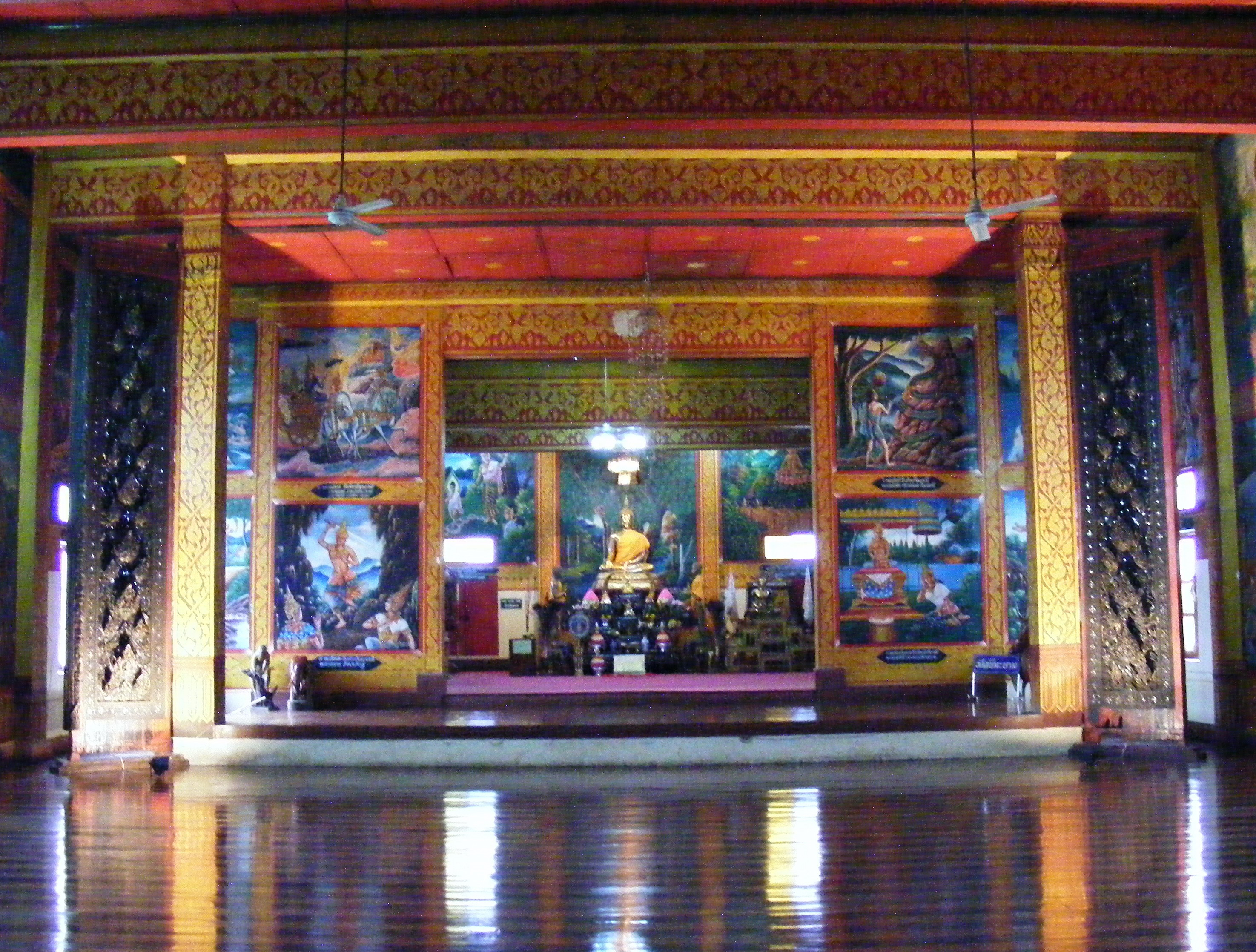 Wat Thammathippatai (dharma pavilion) in 2008Location: Wat Thammathippatai Tha It subdistrict, Mueang Uttaradit, Uttaradit Province, Thailand.